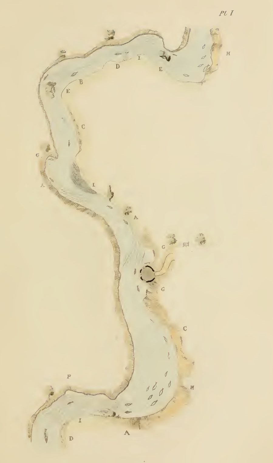 Plate I Haunts of the Trout from The Fly-fisher's Entomology, 1849 by Alfred Ronalds.